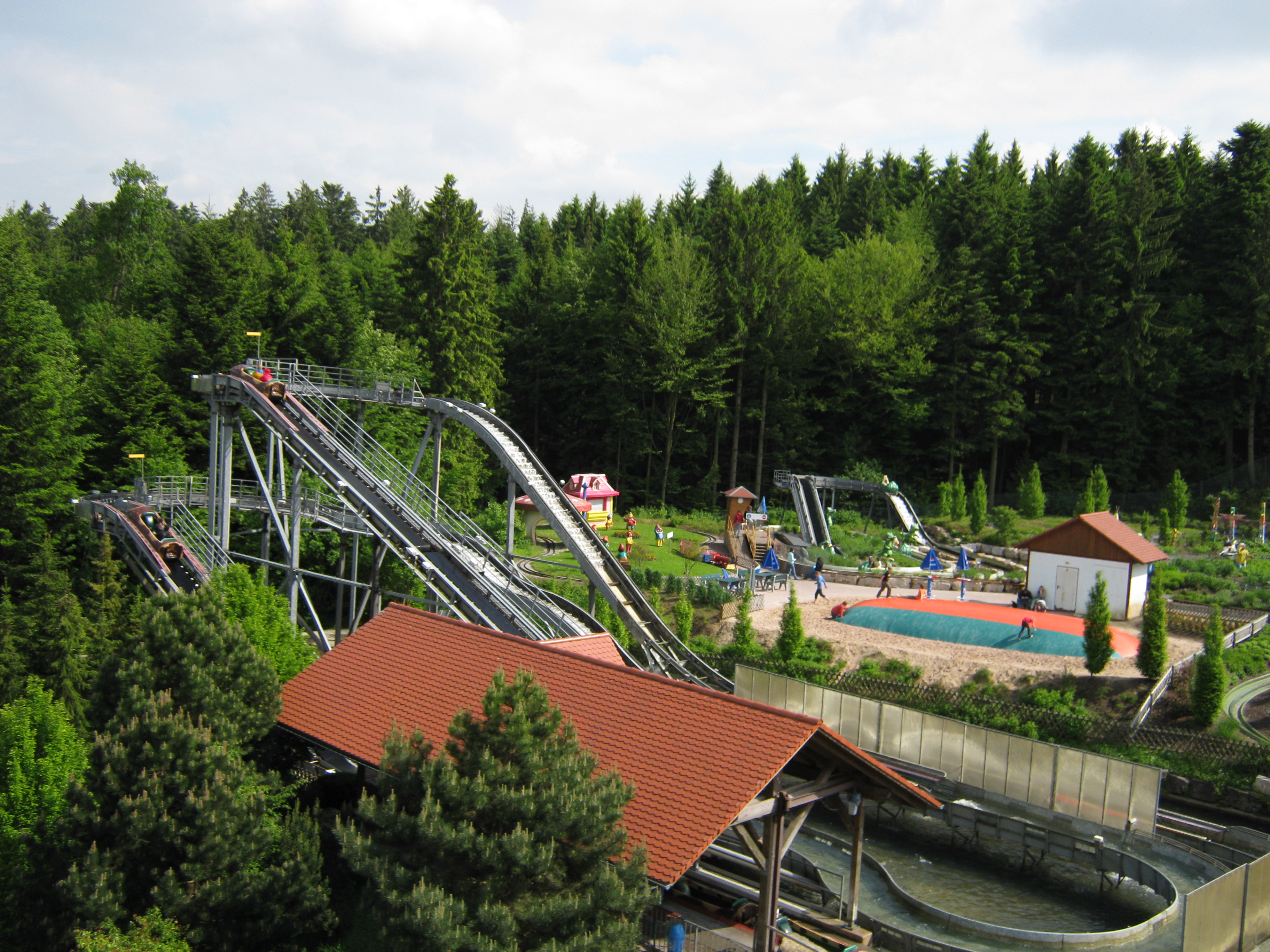 Water coaster photographed from Himalayabahn